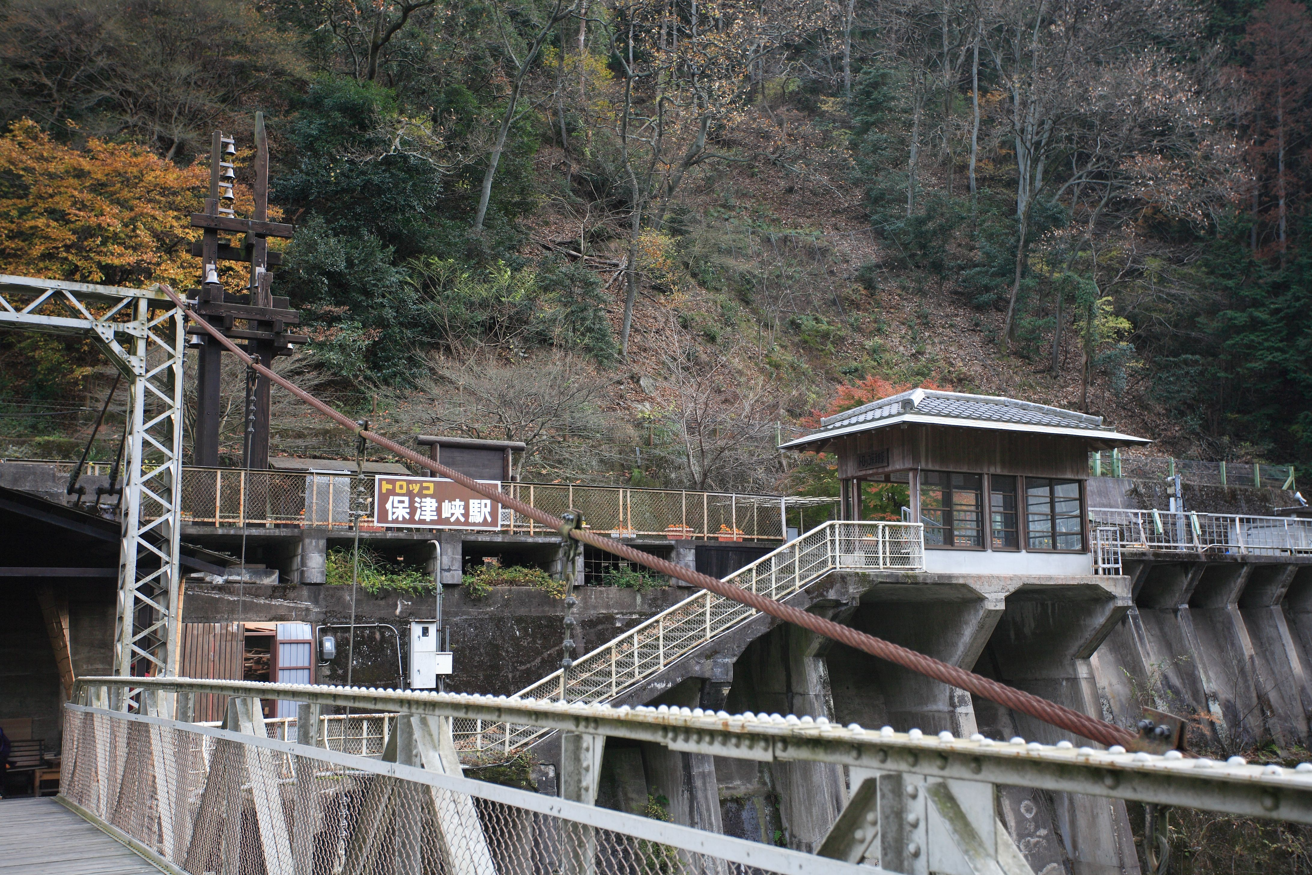 Truck-Hozukyo Station(トロッコ保津峡駅), Kyoto, Kyoto Pref., Japan.